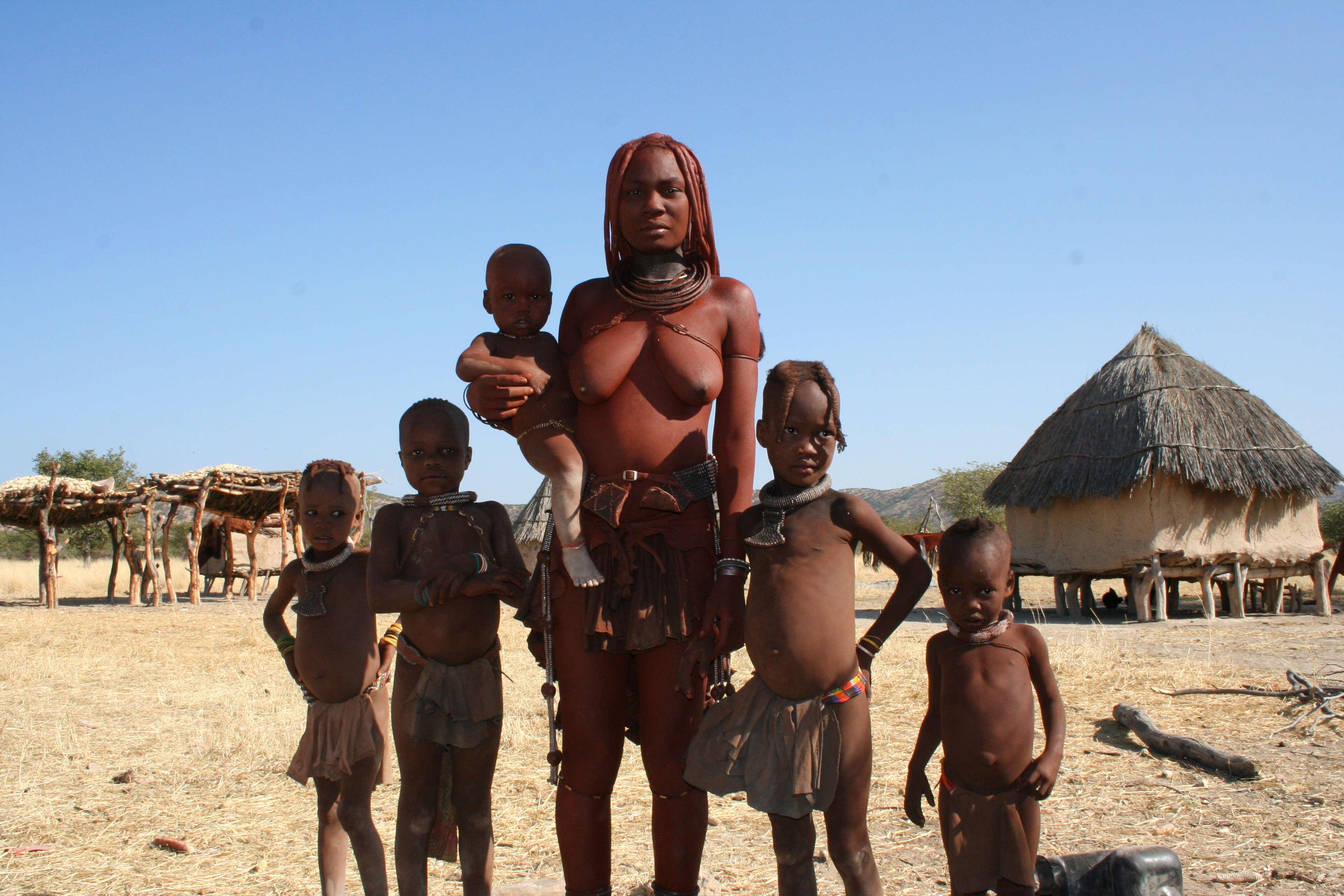 A Himba woman, Mbapaa, and some of her children, nieces and nephews, stand before her father (Katere)'s homestead.